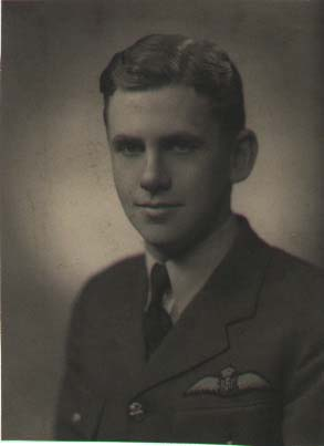 Photo of Russell Lyon taken when he was awarded his wings